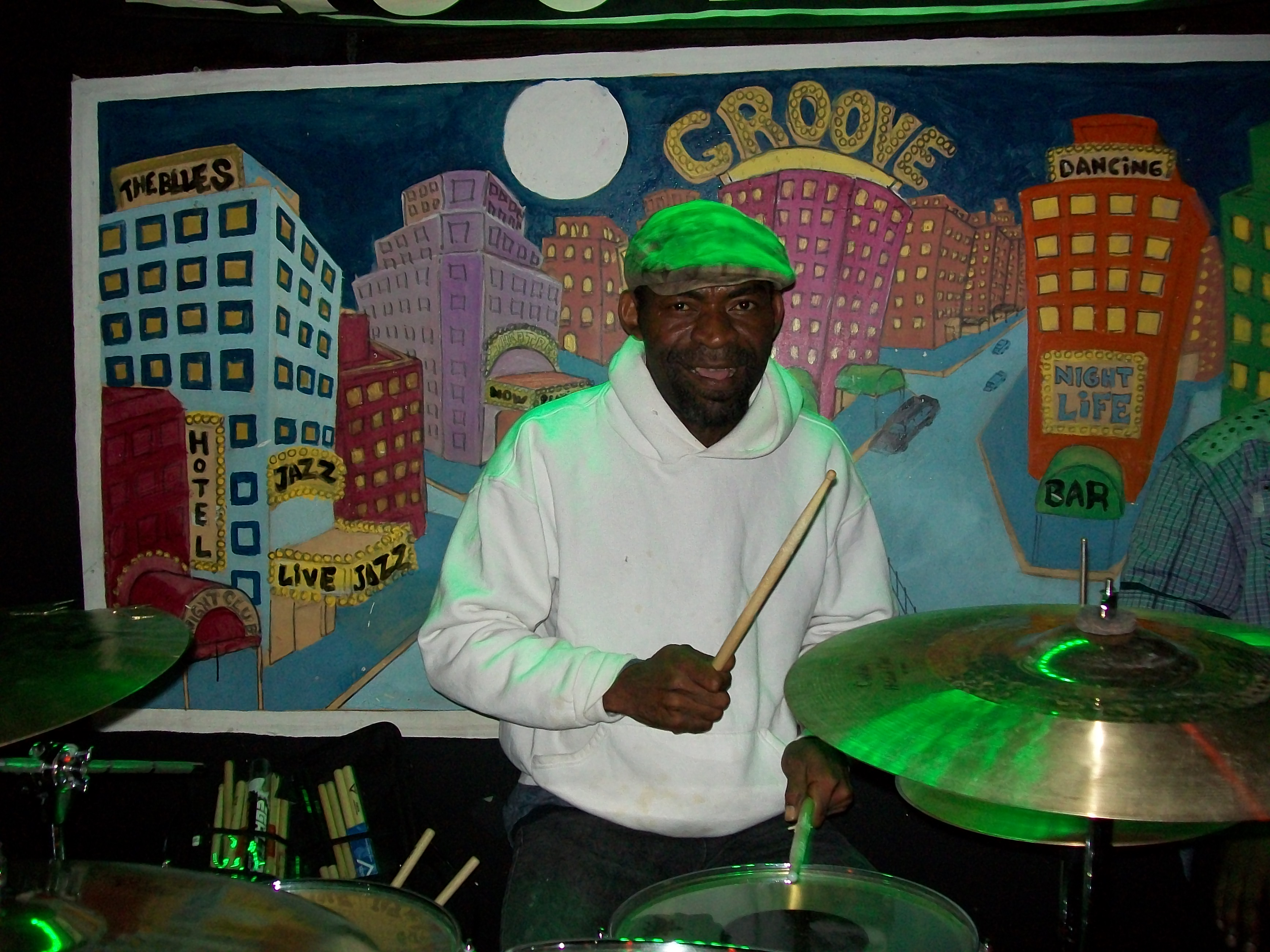 Jojo at the Groove (New-York)